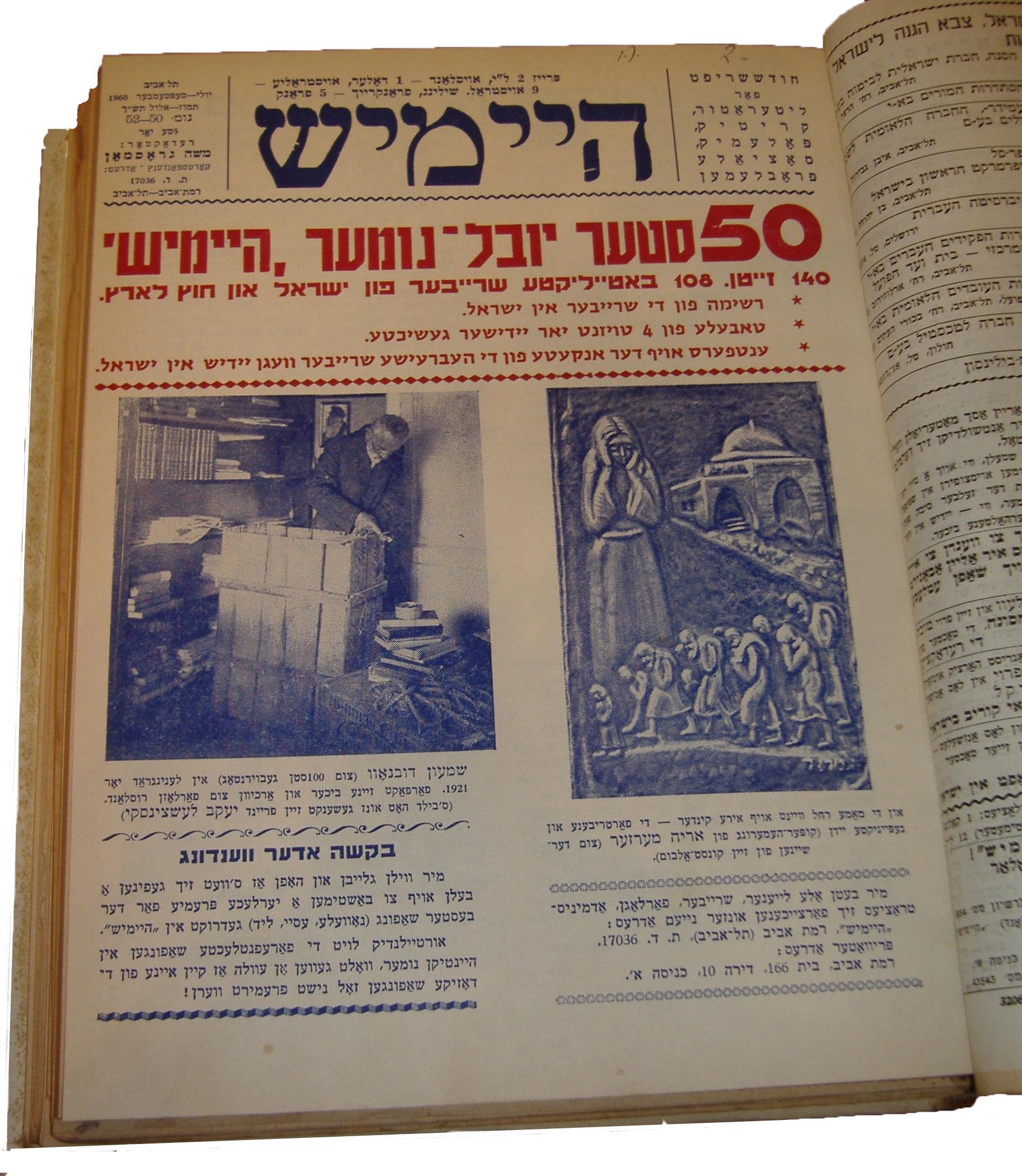 Picutre of Haimish magazine